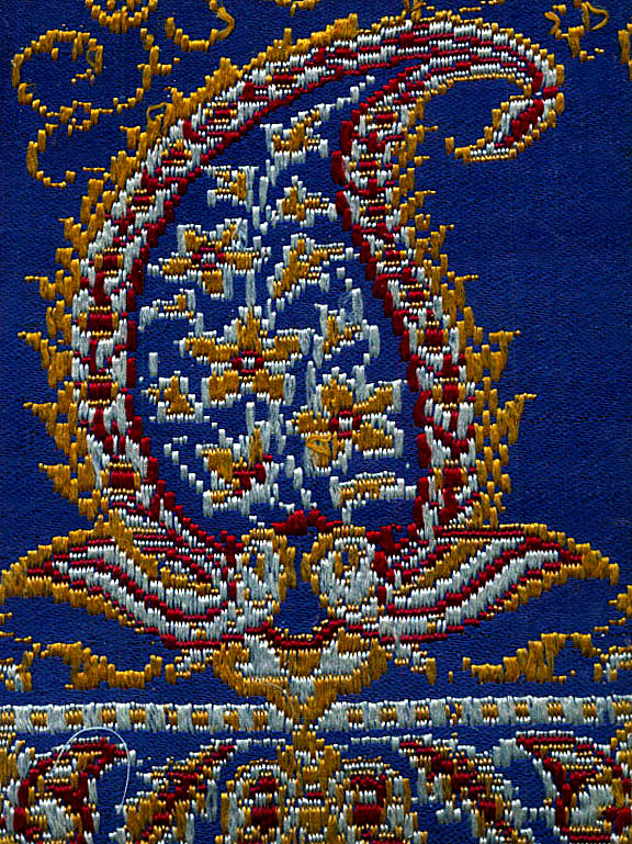 Persian Silk Brocade. Persian Textile (The Golden Yarns of Zari - Brocade). Texture Type: Lower Warp (Brocade Atlasi). Draw Loom. Pattern and Design: Paisley Right-Leaning (Bote Jeghe), With Main Repeating Motif (Persian Paisley). Brocade weaver: Unknown. Brocade Designer (Pattern Designer): Unknown. Pahlavi Dynasty. Beaux Industries (Sanaye-e Mostazrafeh) . brocade and velvet workshop.